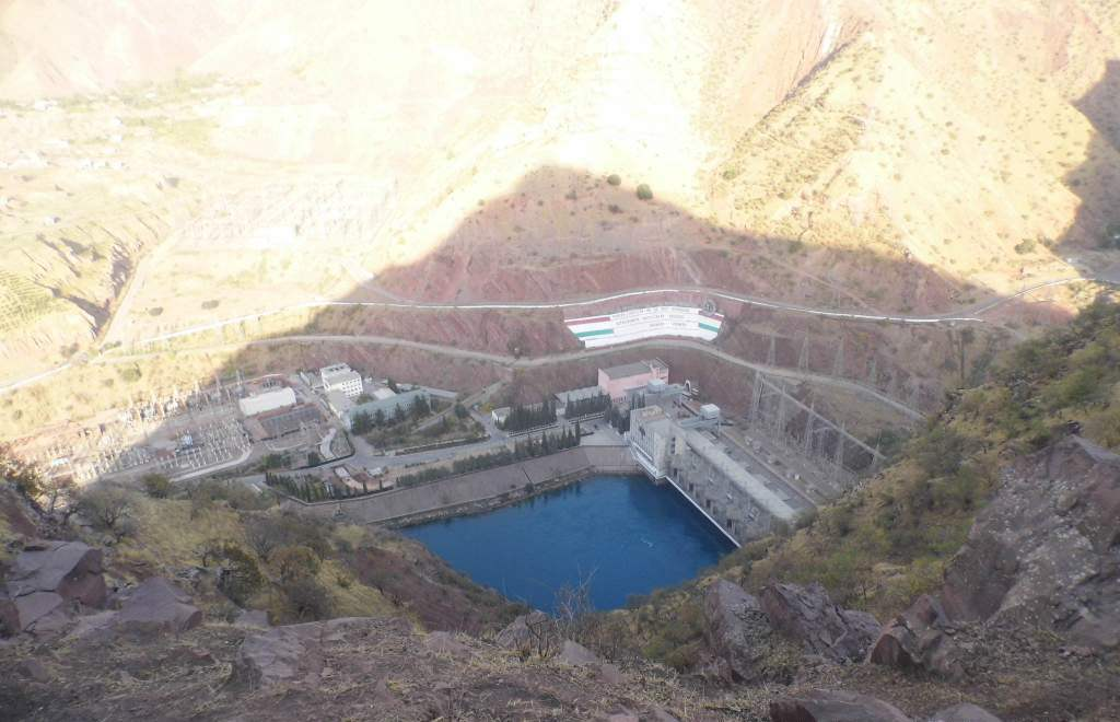 Nurek hydroelectric station,Tajikistan